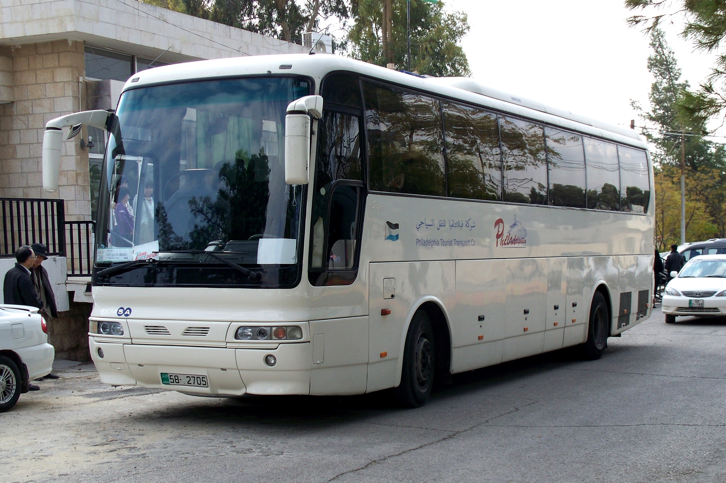 Temsa Safir coach in Jordan, 2009.